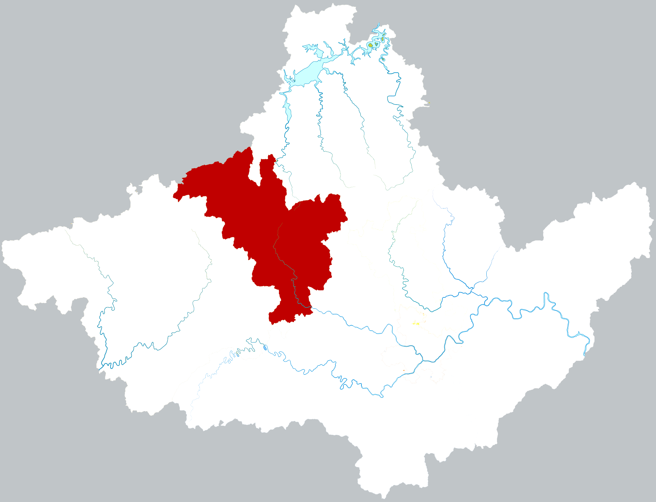 Location of Yi county in Huangshan city, China